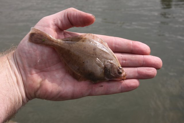 Smalle founder in hand